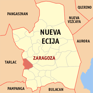 Map of Nueva Ecija showing the location of Zaragoza